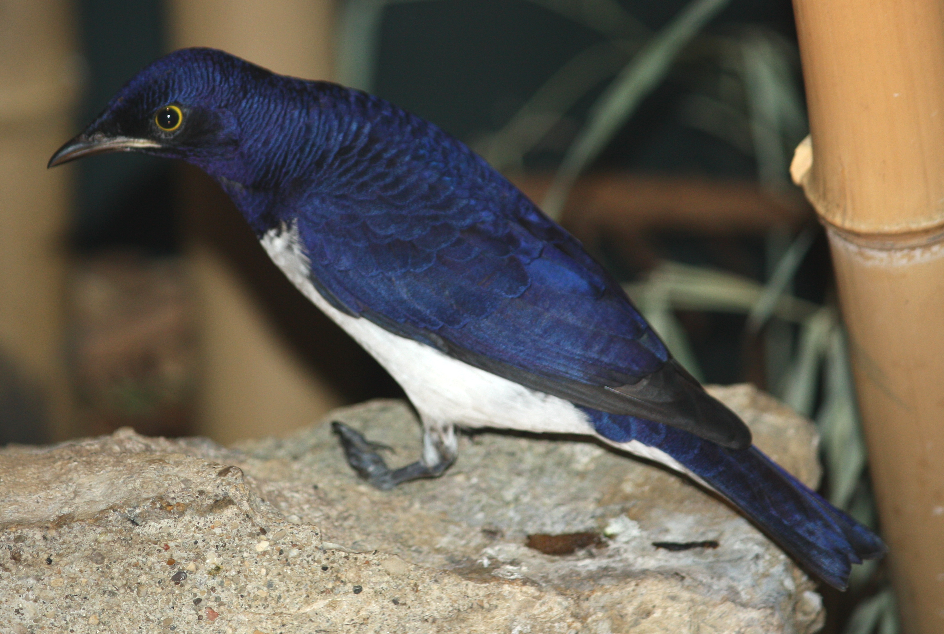 Violet-backed Starling Cinnyricinclus leucogaster at Cincinnati Zoo